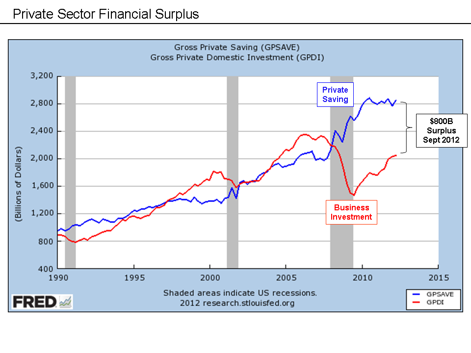 FRED graph of gross private savings and gross private investment for January 1990-September 2012.